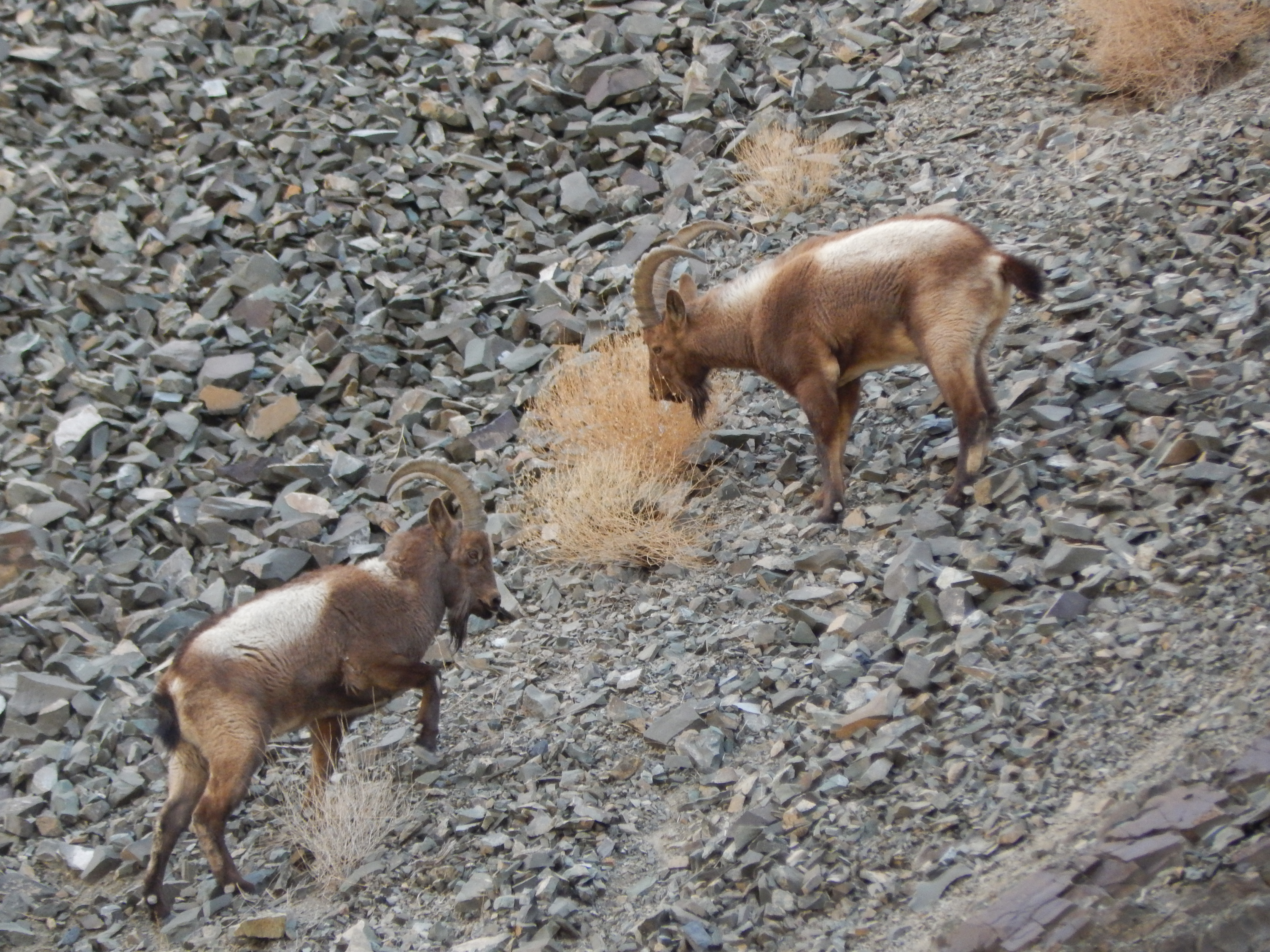 Siberian ibex (Capra sibirica) males feeding on bushes in Kargil, Ladakh, J&K, India.